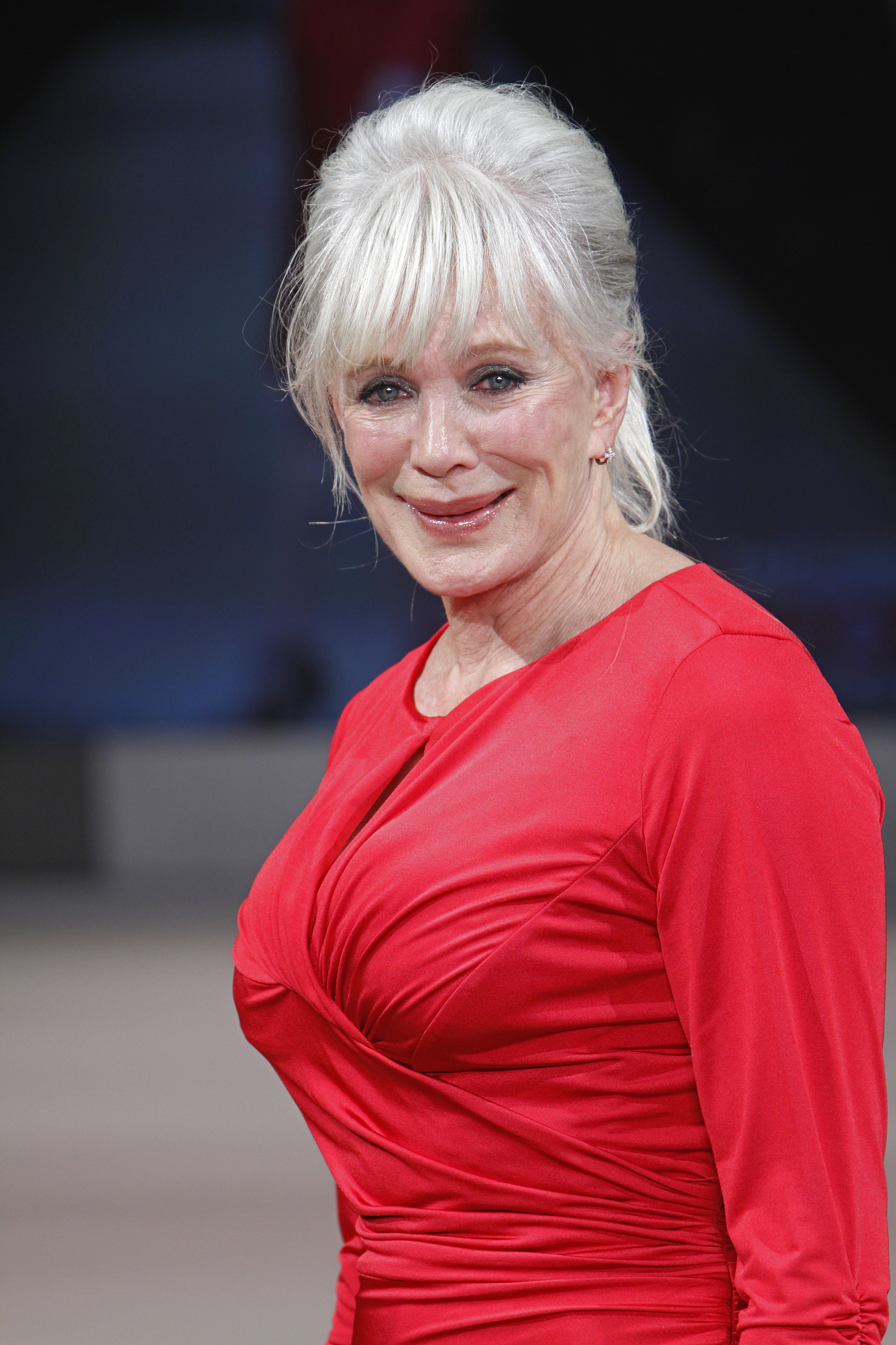 Photo by Dan&Corina Lecca